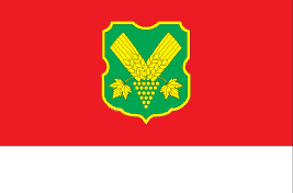 Flag of Bilozerskyj rajon